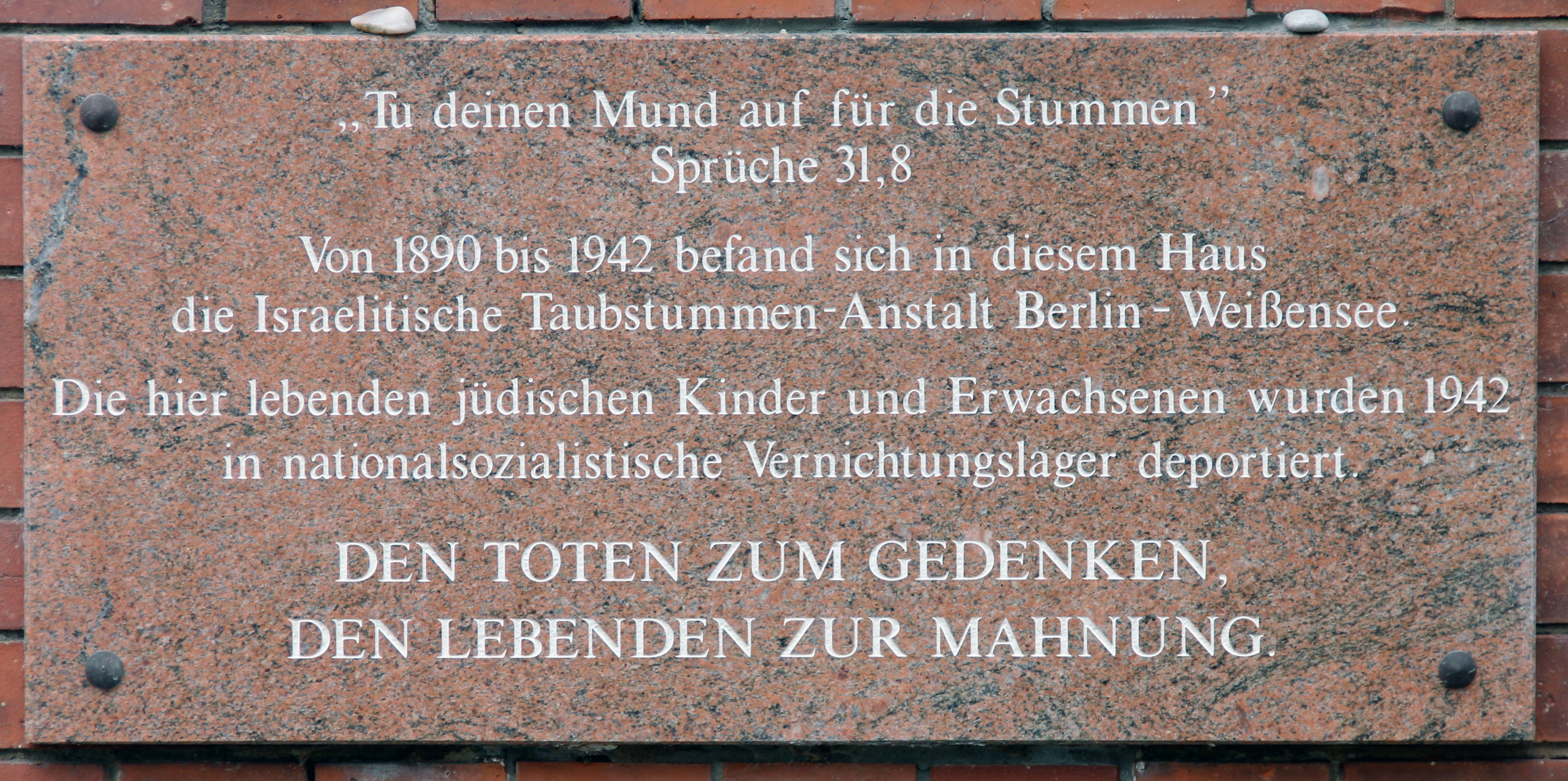 Memorial plaque, Israelitische Taubstummenanstalt, Parkstraße 22, Berlin-Weißensee, Deutschland